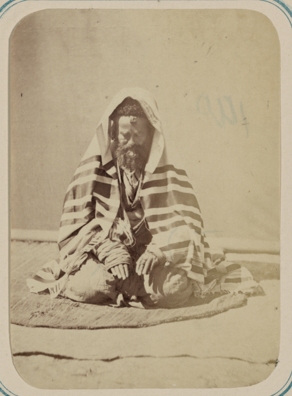 This photograph is from the ethnographical part of Turkestan Album, a comprehensive visual survey of Central Asia undertaken after imperial Russia assumed control of the region in the 1860s. Commissioned by General Konstantin Petrovich von Kaufman (1818–82), the first governor-general of Russian Turkestan, the album is in four parts spanning six volumes: “Archaeological Part” (two volumes); “Ethnographic Part” (two volumes); “Trades Part” (one volume); and “Historical Part” (one volume). The principal compiler was Russian Orientalist Aleksandr L. Kun, who was assisted by Nikolai V. Bogaevskii. The album contains some 1,200 photographs, along with architectural plans, watercolor drawings, and maps. The “Ethnographic Part” includes 491 individual photographs on 163 plates. The photographs show individuals representing the different peoples of the region (Plates 1–33); daily life and rituals (Plates 34–91); and views of villages and cities, street vendors, and commercial activities (Plates 92–163). Ethnographic photographs; Jews; Photographic surveys; Portrait photographs; Portraits; Prayer